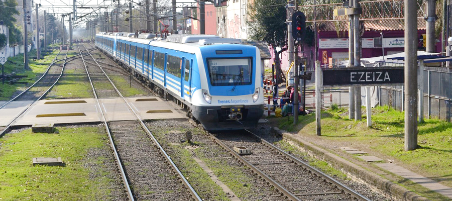 A CSR EMU approaching Ezeiza train station.